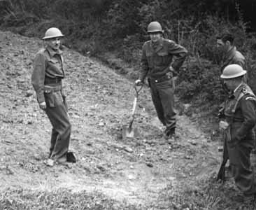 Michael Perrin (British), Colonel John Lansdale, Jr. (US), Samuel Goudsmit (US), and Commander Eric Welsh(British) searching for Uranium, Haigerloch, Germany